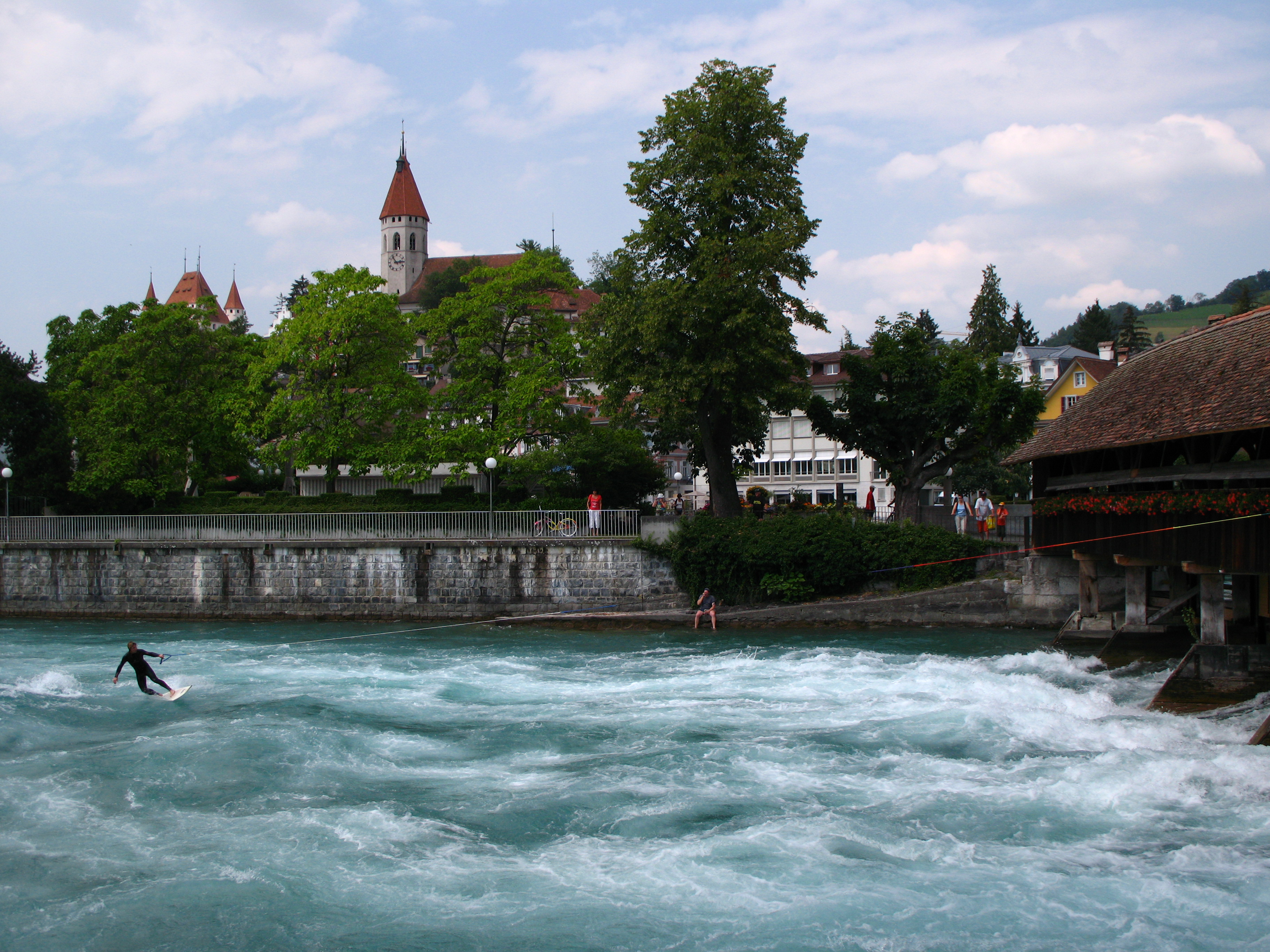 Surfing in the wake of the Upper Sluice (with the City Church in the background), Thun, Switzerland